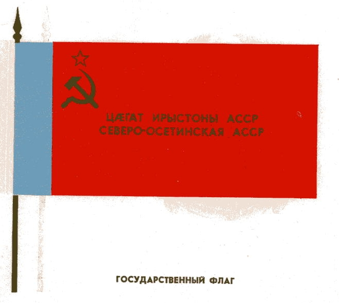 flag of North-Ossetian Autonomous Soviet Socialist Republic